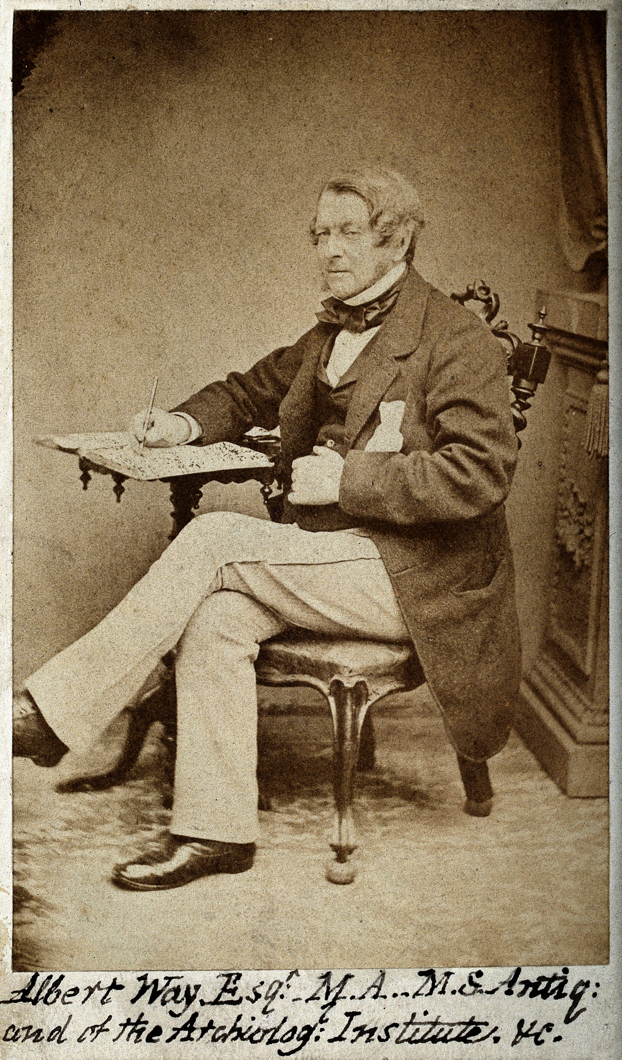 Albert Way. Photograph by G. Evans. Iconographic Collections Keywords: portrait photographs